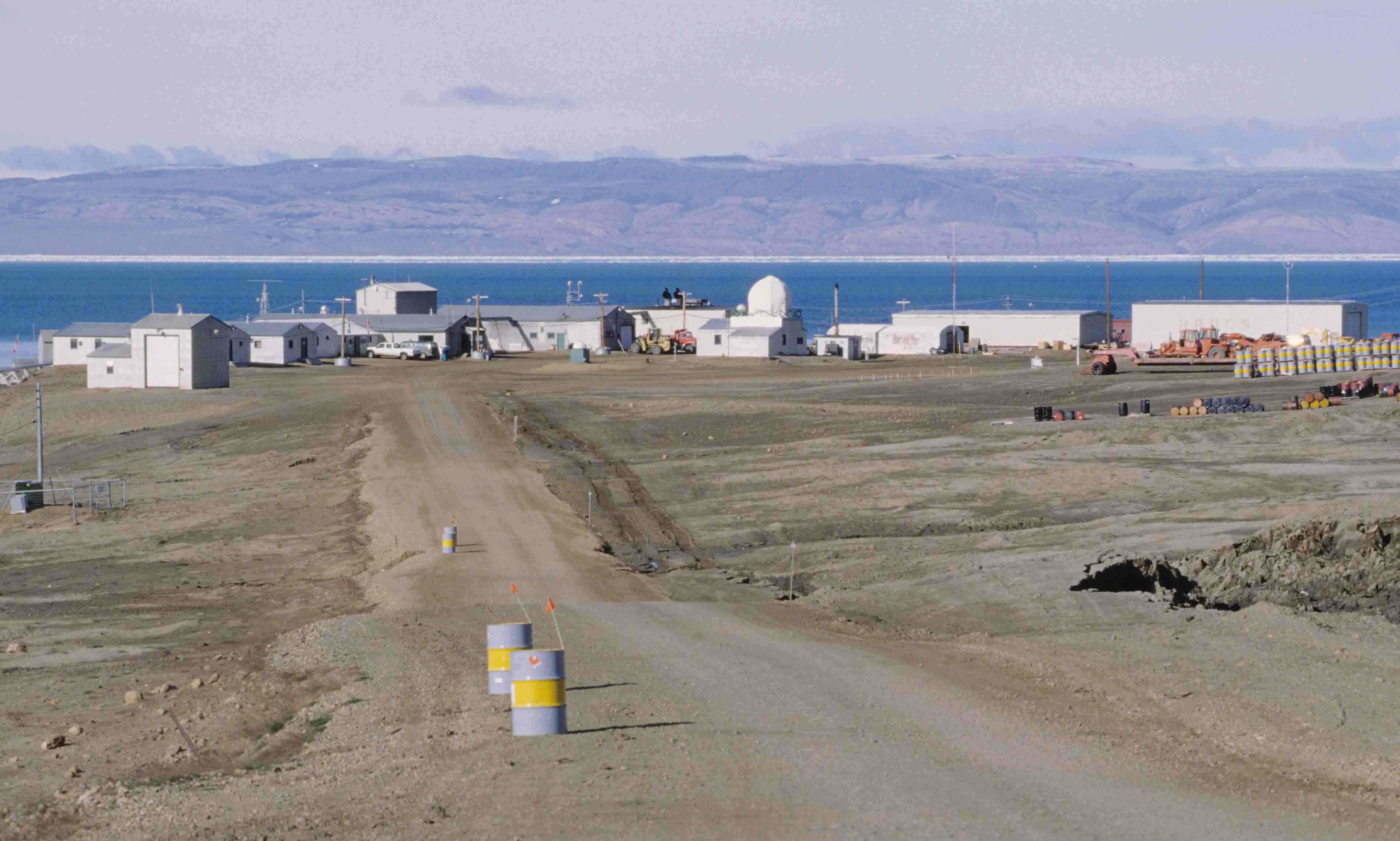 Eureka Weather Station, view from the airstrip – background Slidre Fiord and coast of Fosheim Peninsula (Ellesmere Island)